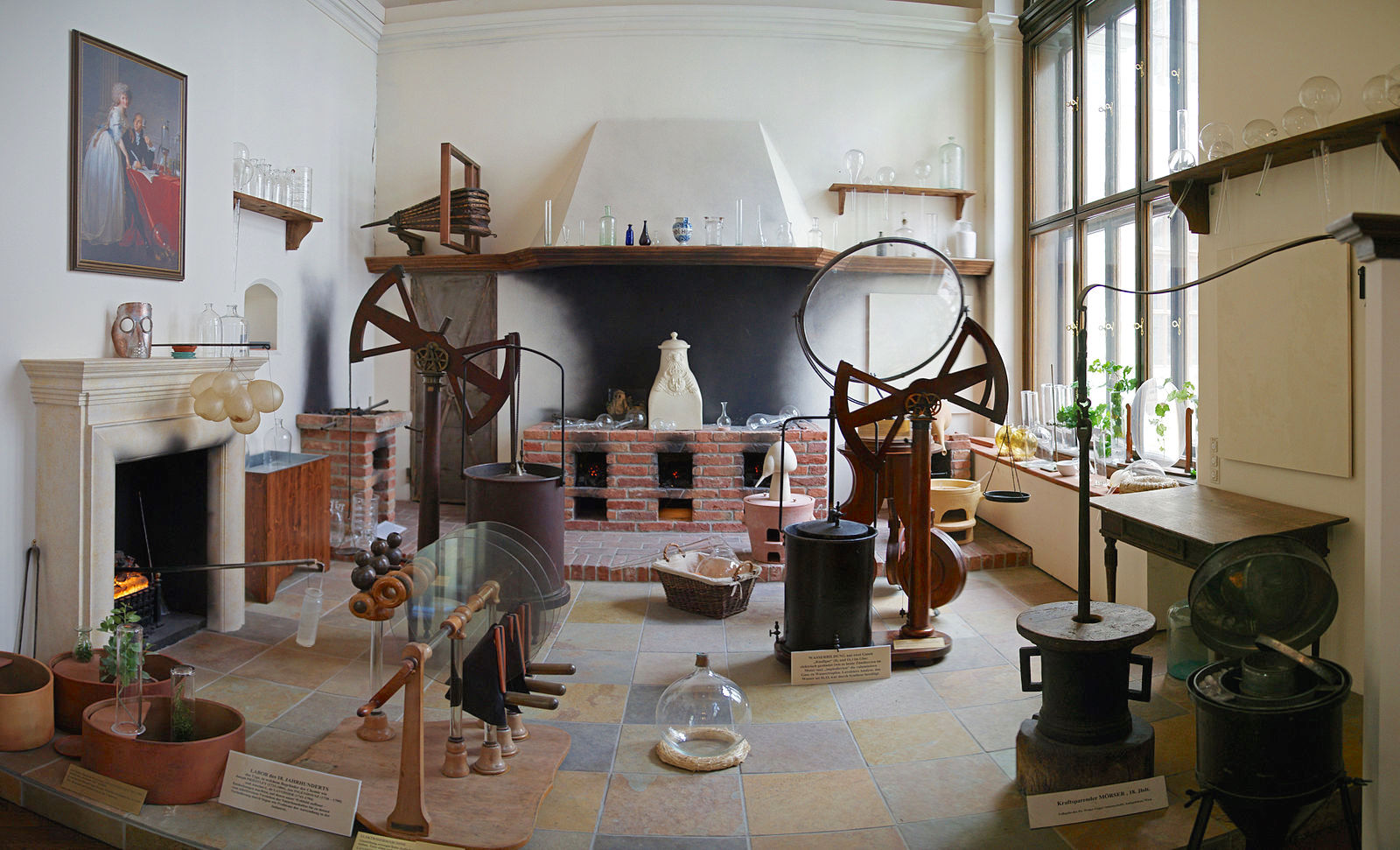 Chemist's laboratory of the 18th century, similar to the one used by Lavoisier and his contemporaries. Naturhistorisches Museum Wien.